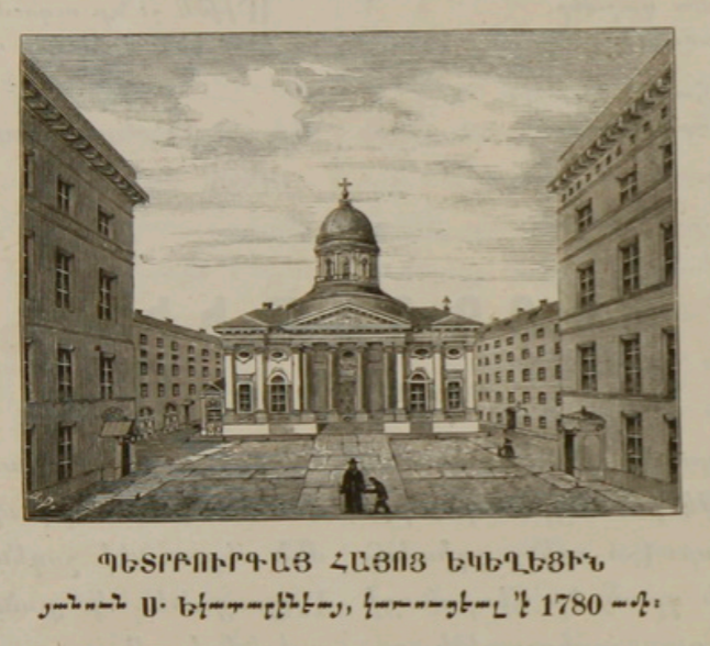 Saint Catherine's Armenian Church, St. Peteresburg, Russia